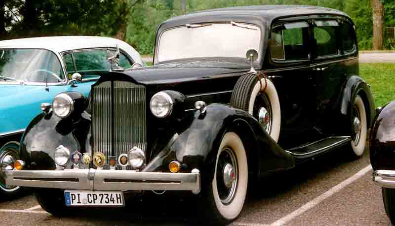 Packard Twelveth Series Eight Limousine 1935